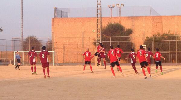 Lorca Deportiva 2